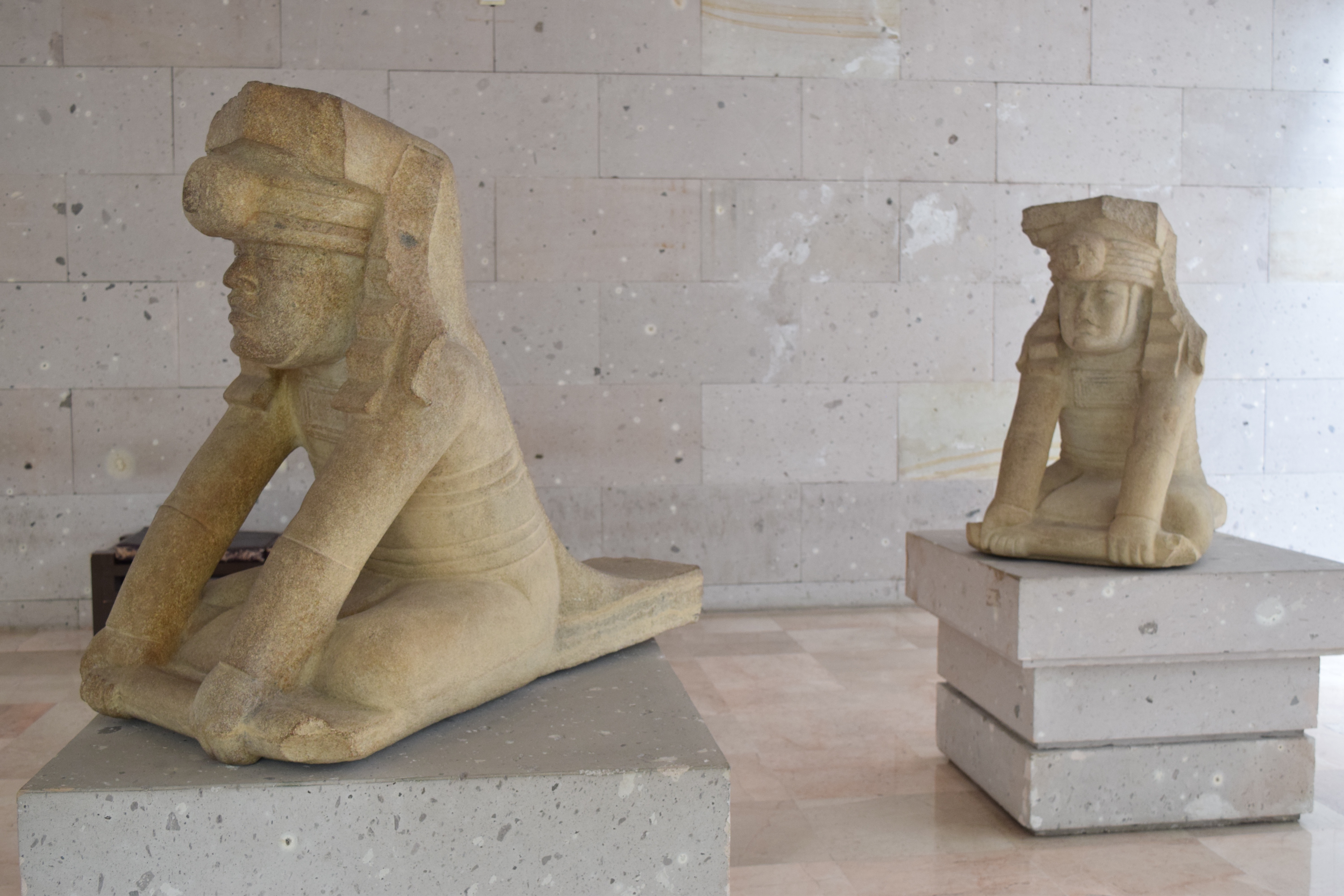 This pieces were found along with the others in 1987 in a mound located in the site of Loma Zapote or ranch El Azuzul Veracruz. This pieces are located in the Museum of Anthropology of Xalapa, Veracruz.